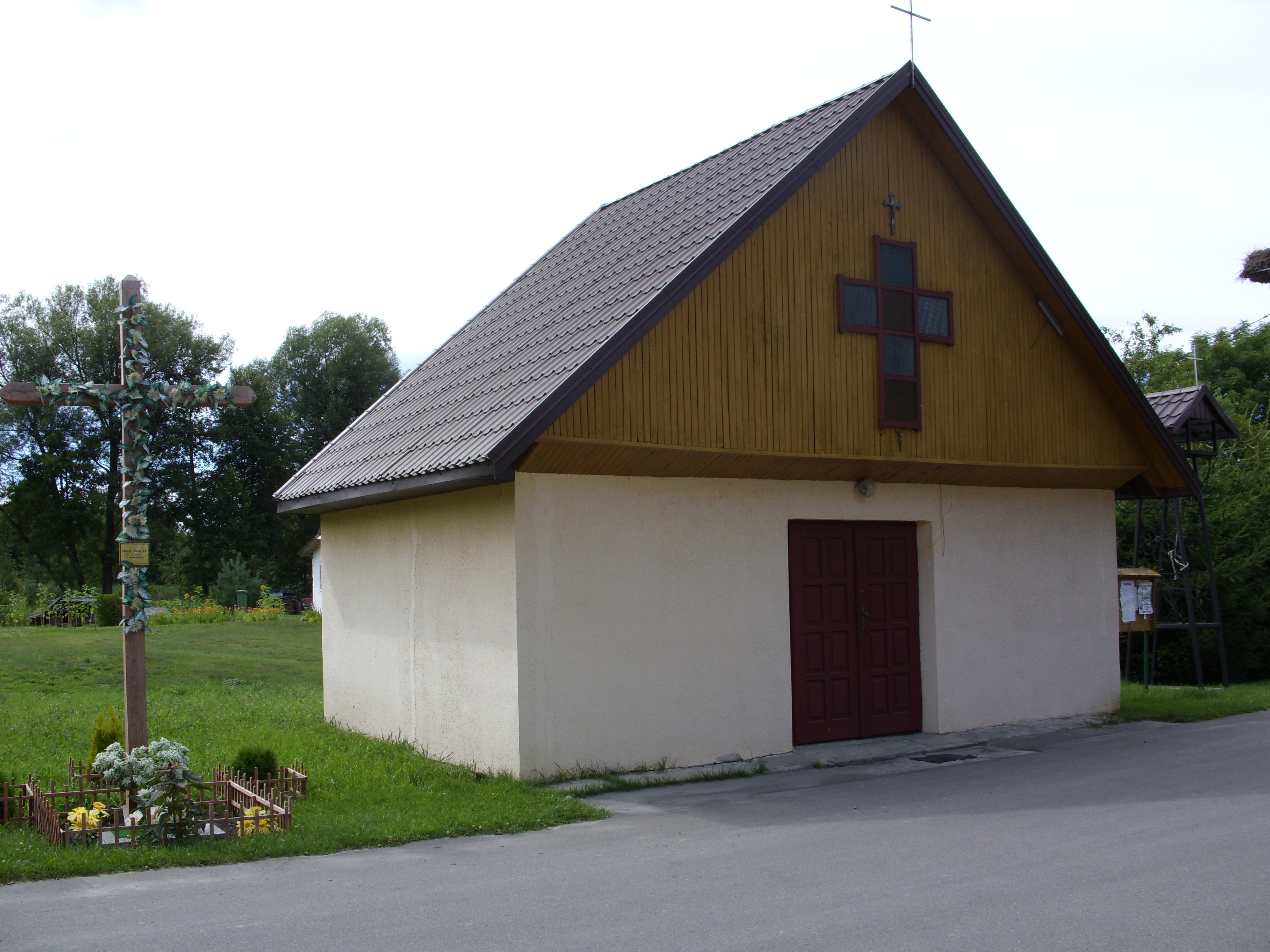 Żyłka (Lublin Voivodeship). The chapel of the Blessed Virgin Mary of Częstochowa in the place where, during World War II, on October 2, 1942, the Germans shot 7 inhabitants of the village. German occupiers murdered seven inhabitants of Żyłka, accusing them falsely of setting the barn in Bełżec on fire. In the stable were the horses of a German criminal from the extermination camp, commandant Gottlieb Hering. The perpetrators turned out to be watchmen from the extermination camp in the German service. In Żyłka and in the neighboring towns of Lubycza Królewska, Szalenik and Lubyczy-Kniazie, the Germans murdered over 50 people in a pacification operation.